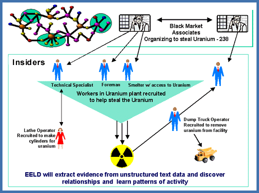 Graphic from the Information Awareness Office's website displaying a possible application of the Evidence Extraction and Link Discovery (EELD) project